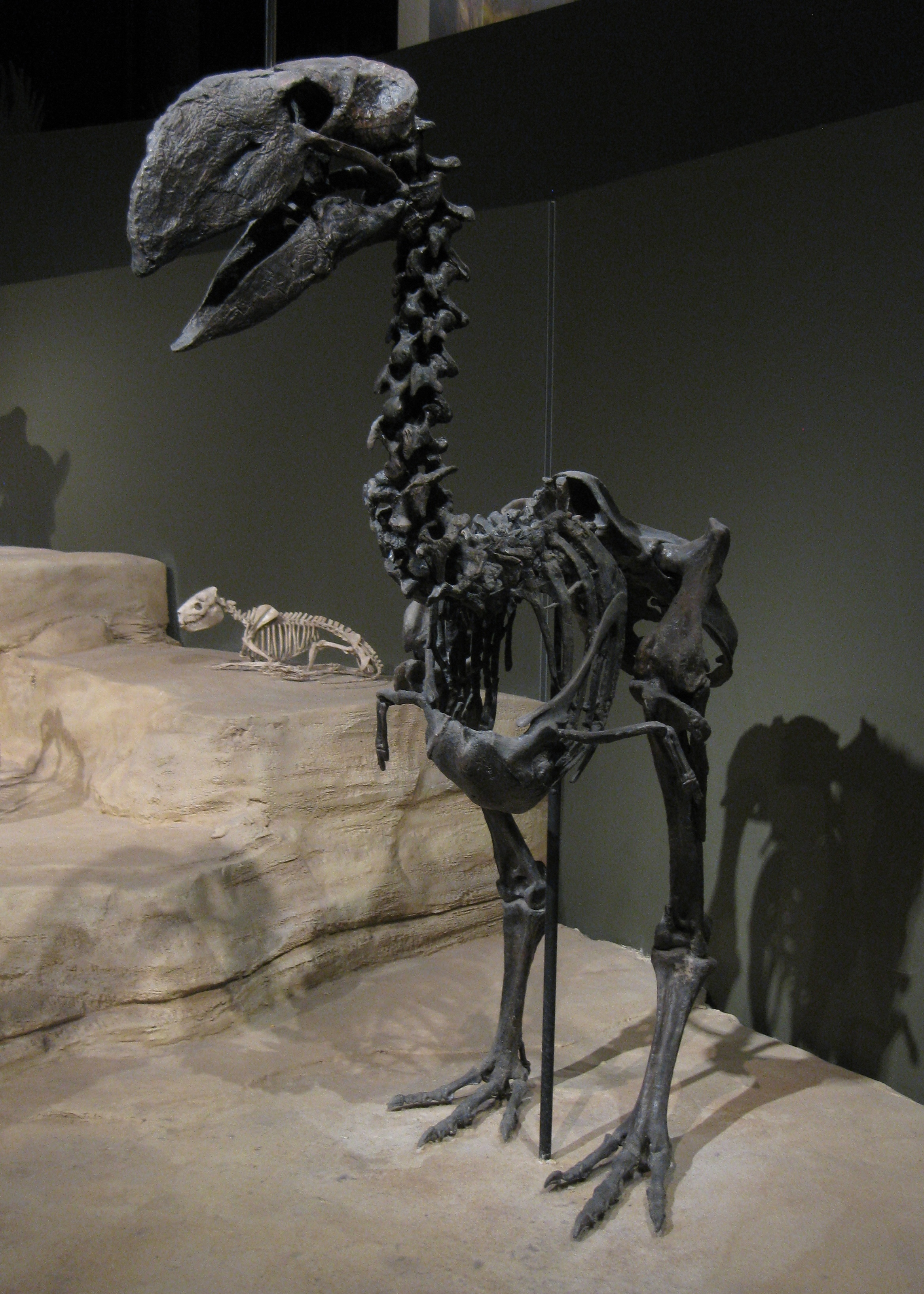 Diatryma, a large flightless bird from the Eocene of Wyoming